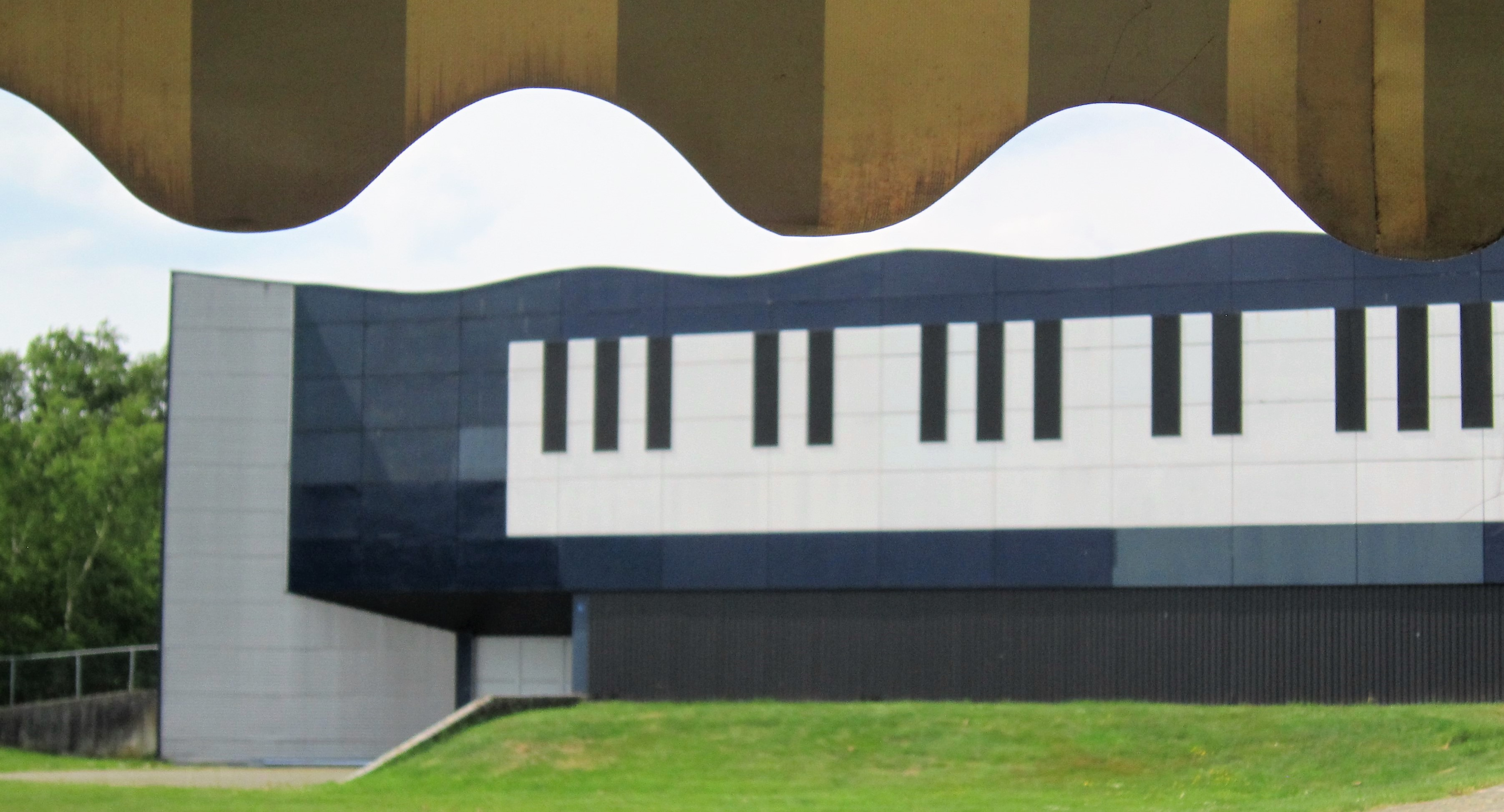 Veenpark in Barger Compascuum (Drenthe): Harmonium Museum